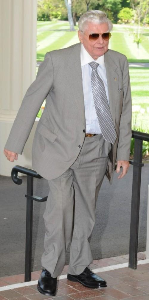 Bart Cummings arrives at Government House, Canberra for a lunch with The Queen.